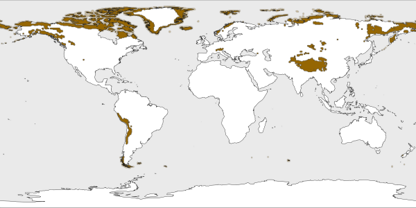 Polar climate (ET).